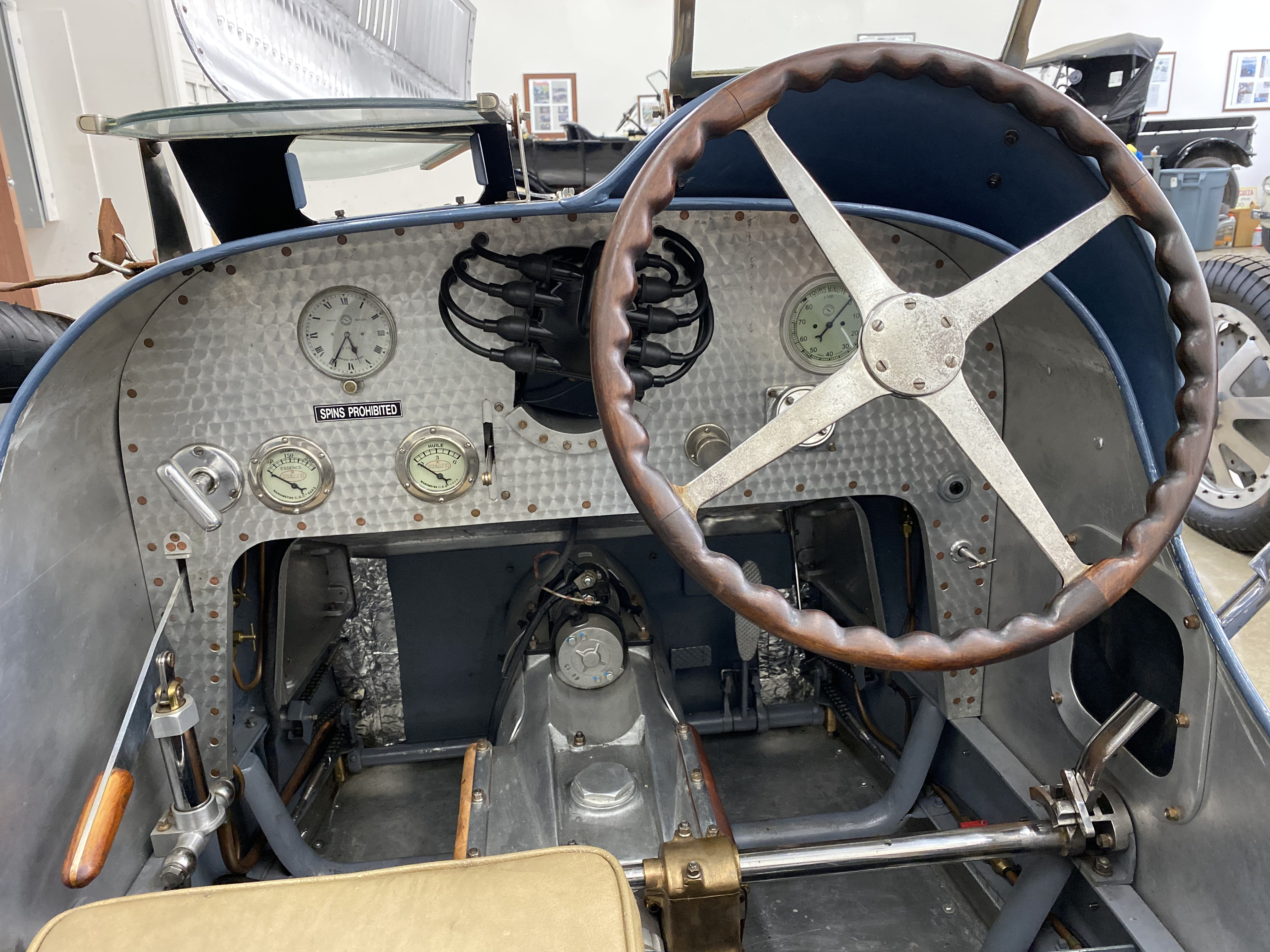 Type 35B dashboard, featuring a modern distributor instead of a magneto